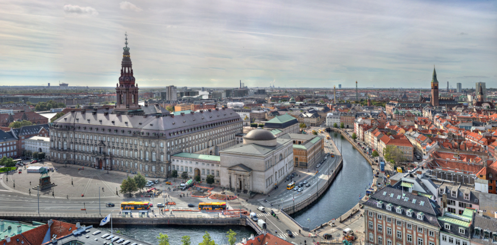 Christiansborg Palace and Chapel on Slotsholmen in Copenhagen, Denmark, seen from the top of St. Nicolas' Church